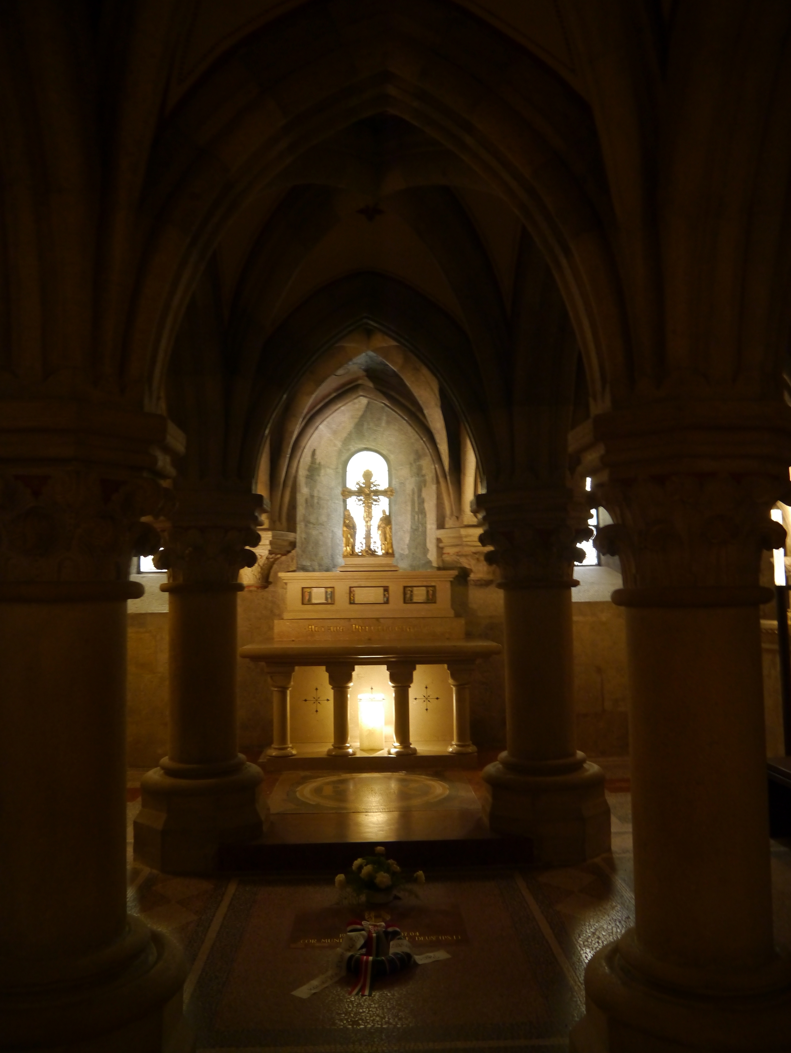 Crypt of Pannonhalma Abbey Church, Pannonhalma, Western Hungary